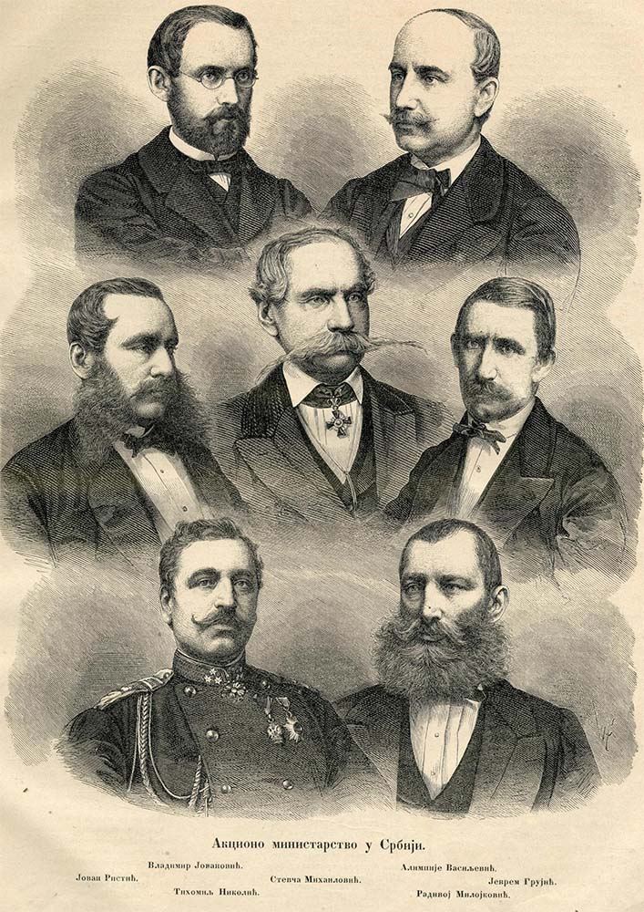 Serbian Action Ministry (Akciono ministarstvo), illustration, from Srbadija, sv. 1, 5. 1st row: Vladimir Jovanovic and Alimpije Vasiljevic 2nd row: Jovan Ristic, Stevca Mihailovic and Jevrem Grujic 3rd row: Tihomilj Nikolic and Radivoj Milojkovic